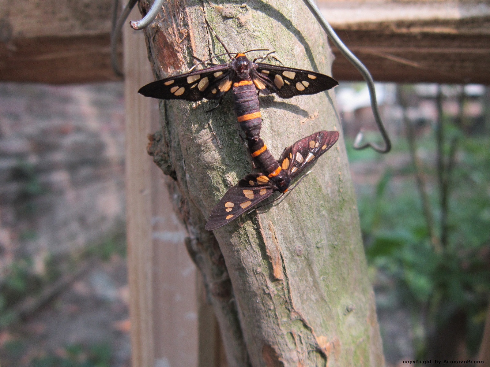 A pair of amata bicincta moth mating.